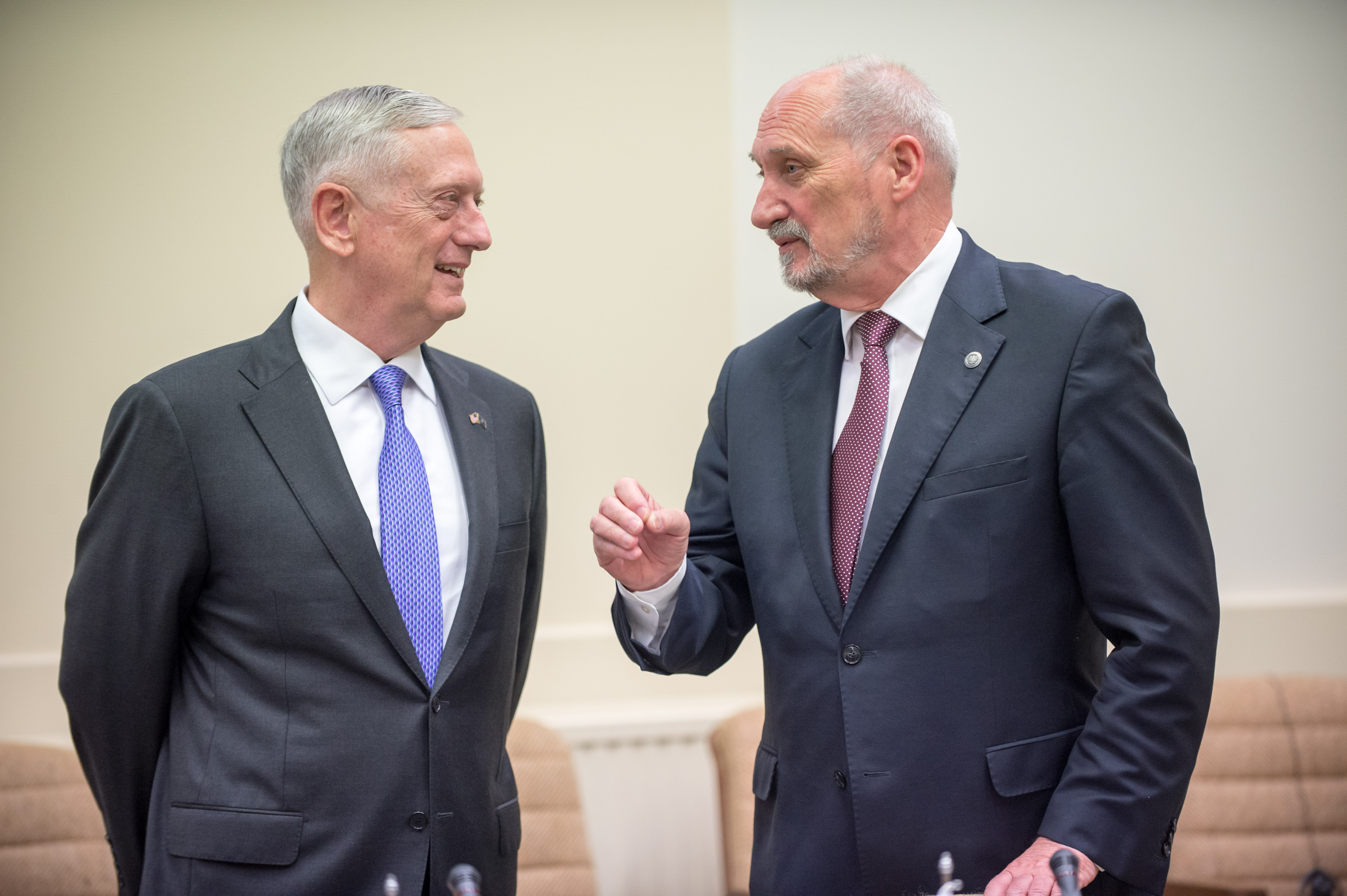 Secretary of Defense Jim Mattis talks with Antoni Macierewicz, Poland’s defense minister, prior to a meeting at the NATO Headquarters in Brussels, Belgium, June 29, 2017. During the meeting, Mattis, Raimonds Bergmanis, Latvia’s defense minister; Harjit Sajjan, Canada’s defense minister; Raimundas Karoblis, Lithuania’s defense minister; Ursula von der Leyen, Germany’s defense minister; Macierewicz; Michael Fallon, Britain's secretary of state for defense; and Juri Luik, Estonia’s defense minister, signed an enhanced forward presence (EFP) declaration. (DOD photo by U.S. Air Force Staff Sgt. Jette Carr)